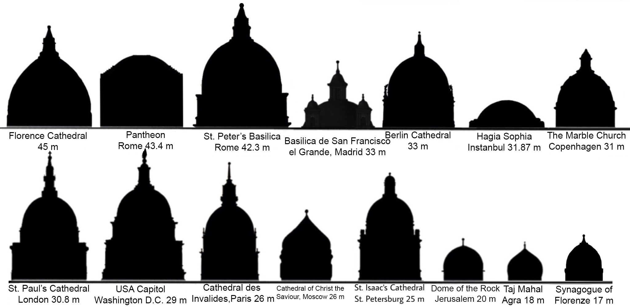 This image is a comparison of some of the most famous domes in the world.